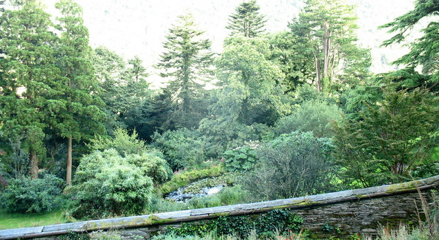 Water garden and pond at Plas Tan y bwlch